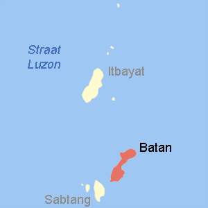 Locator map of Batan Island, Batanes Province, Philippines